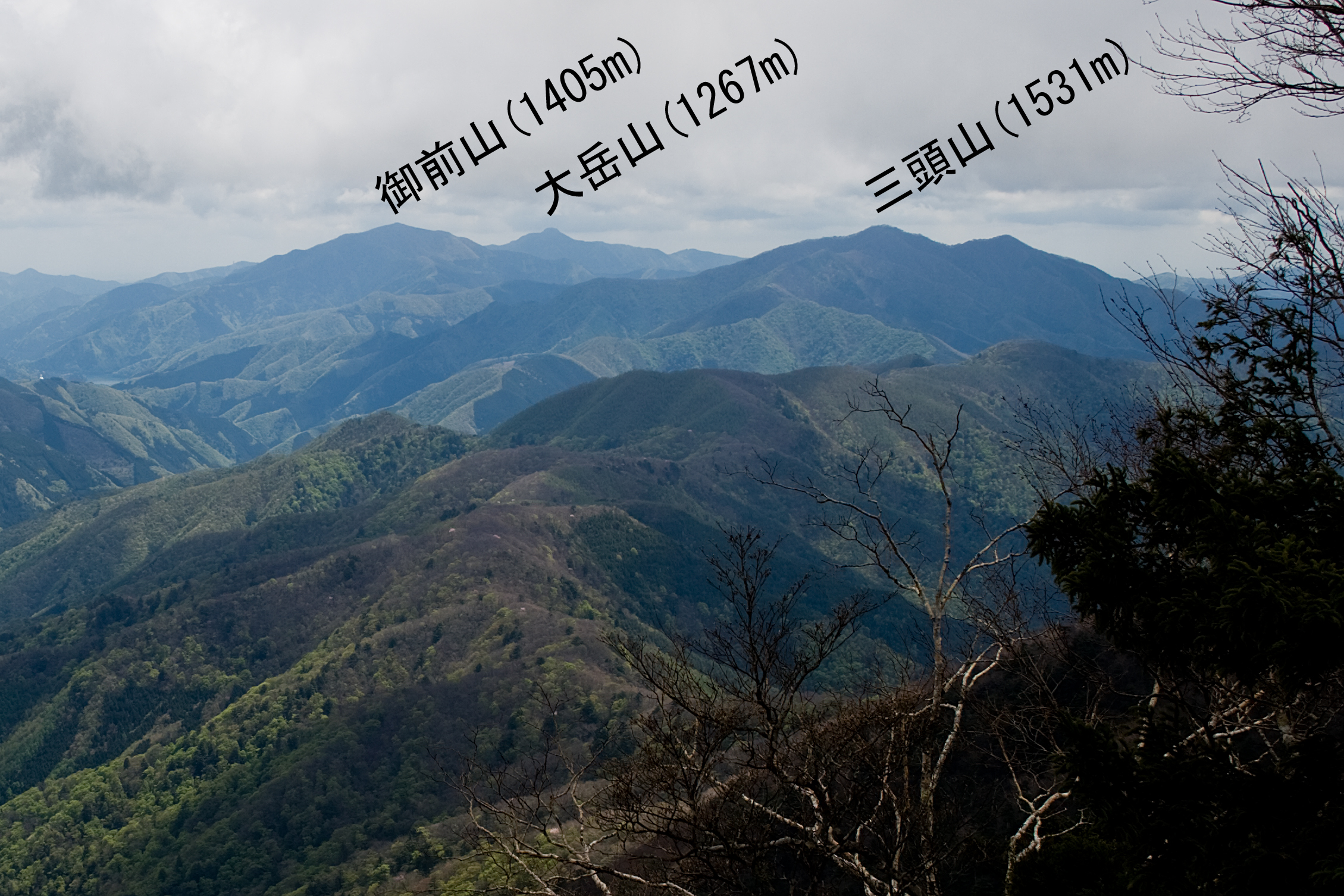 Okutama-sanzan seen from Daibosatsu-Pass, Yamanashi-Tokyo, Japan.